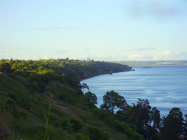 Foto